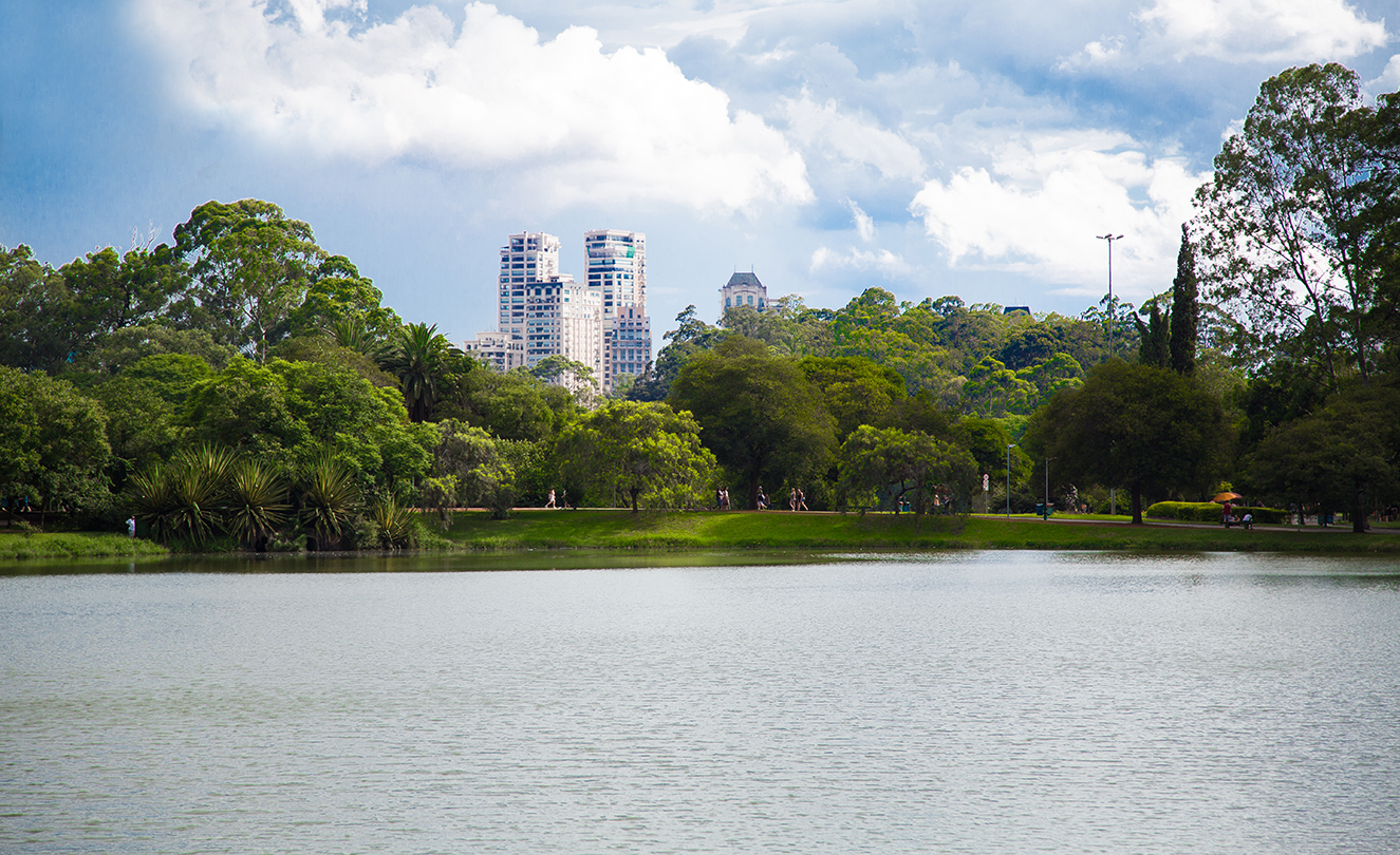 Lago do Parque do Ibirapuera